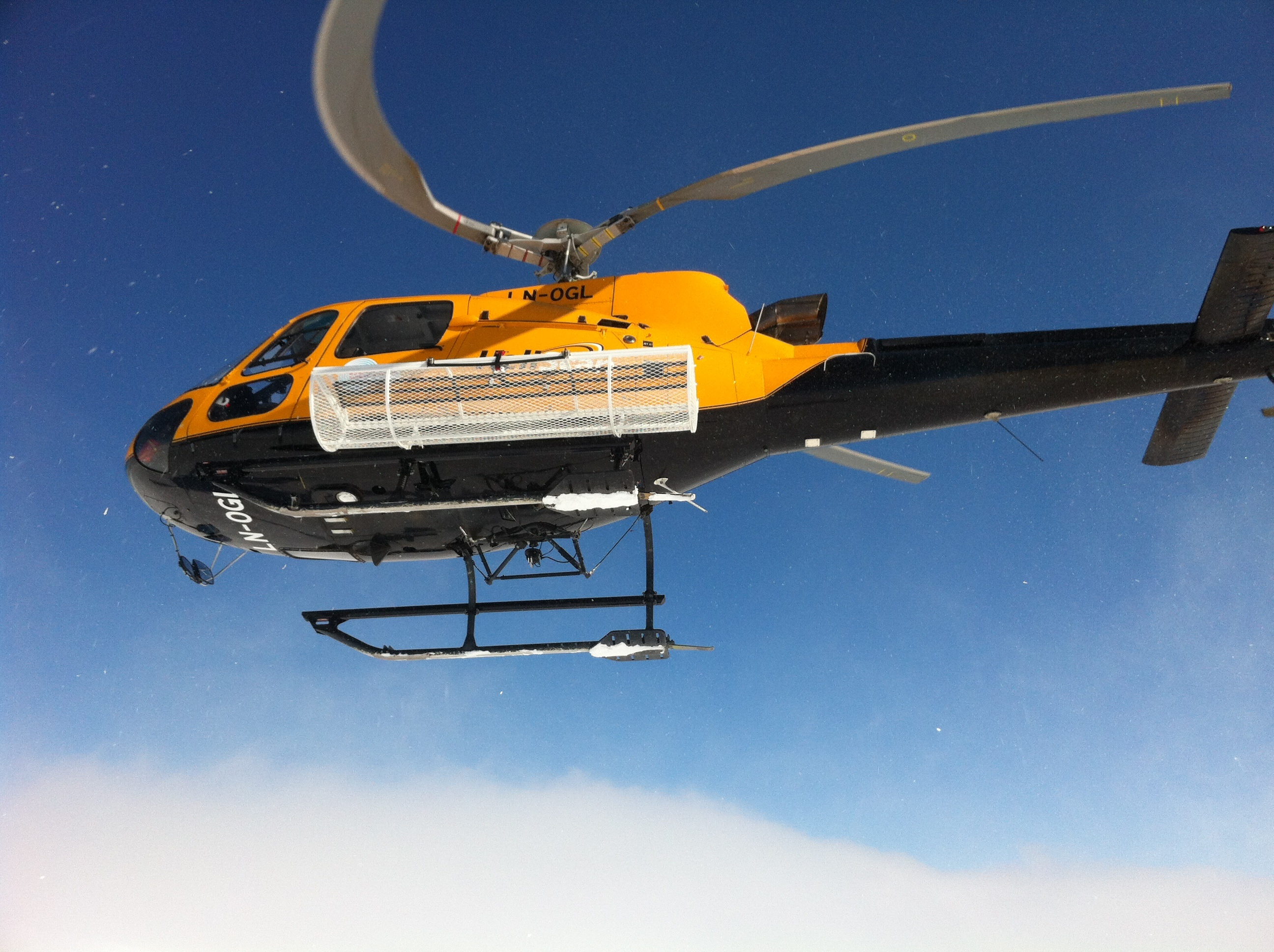 Type: Eurocopter AS 350 B3 Ecureuil